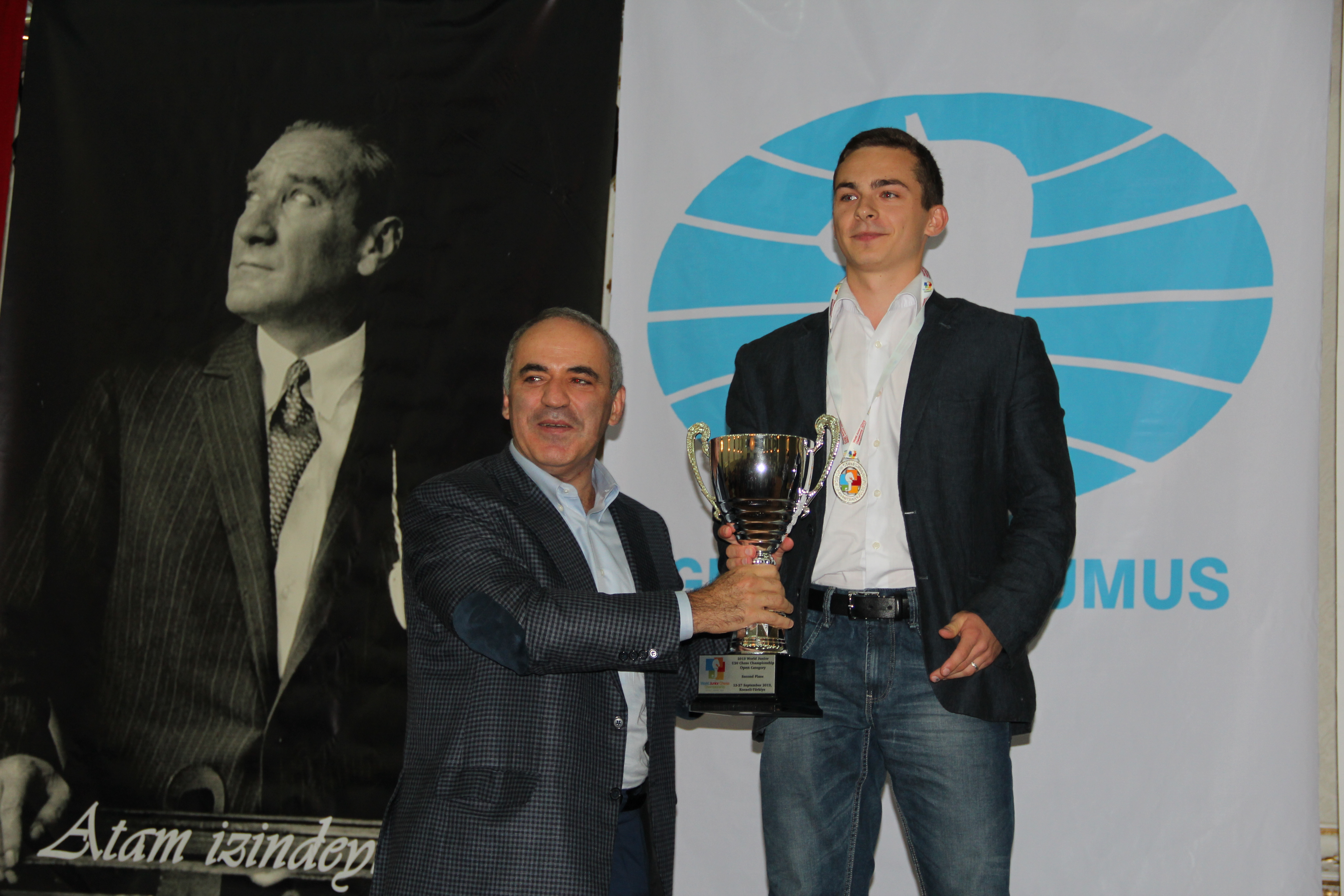 Garry Kasparov gives Alexander Ipatov his reward at 2013 WJCC